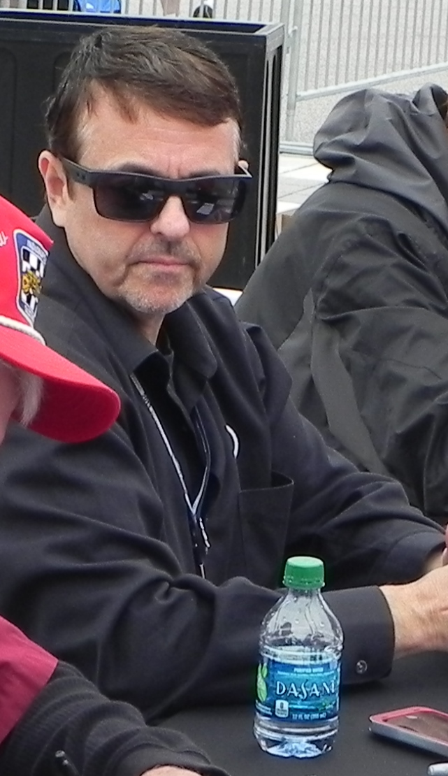 Indy car driver Brian Bonner